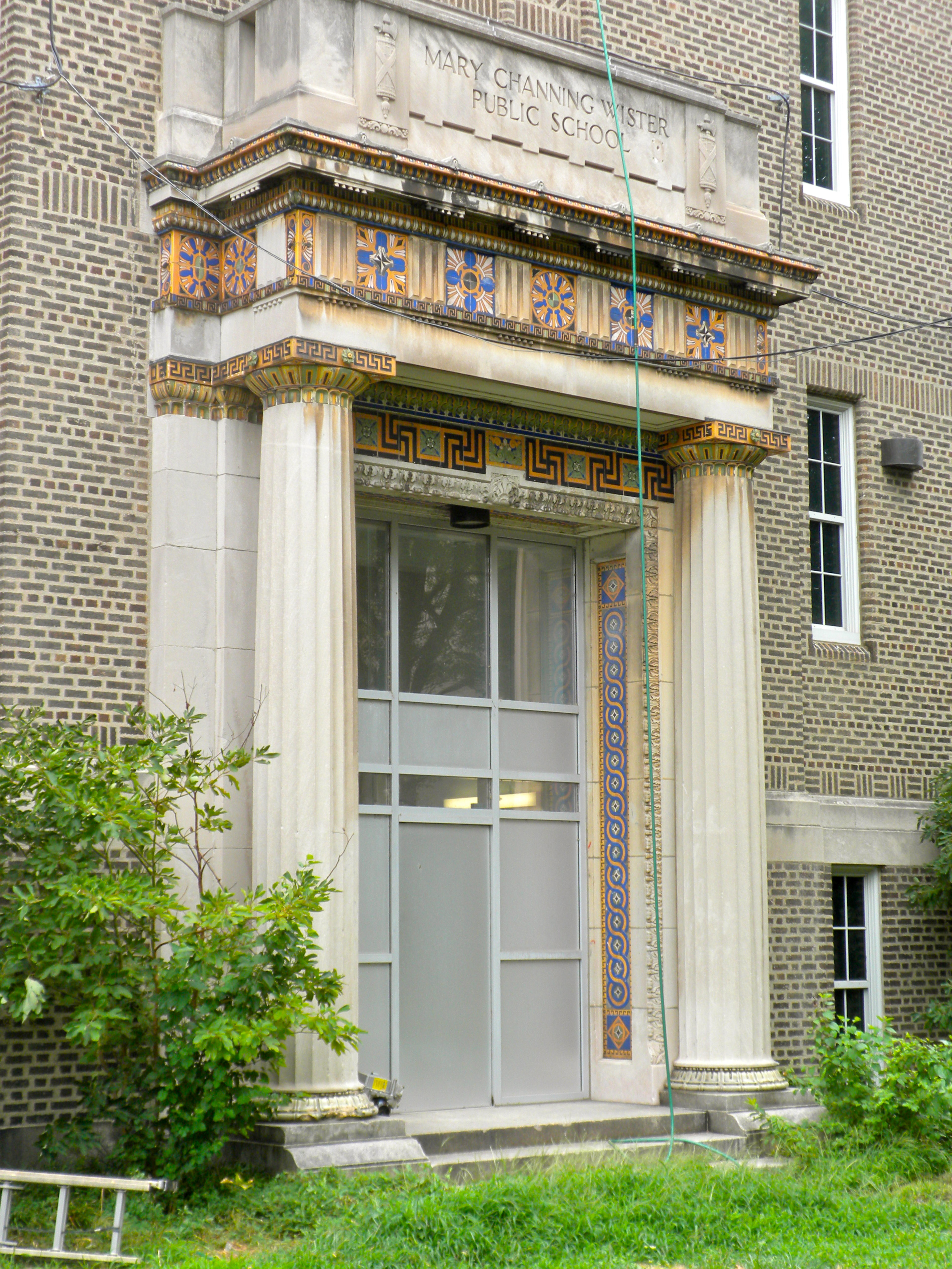 Mary Channing Wister School on the NRHP since November 18, 1988. At 843–855 North 8th St., Philadelphia in the Poplar neighborhood of North Philly.